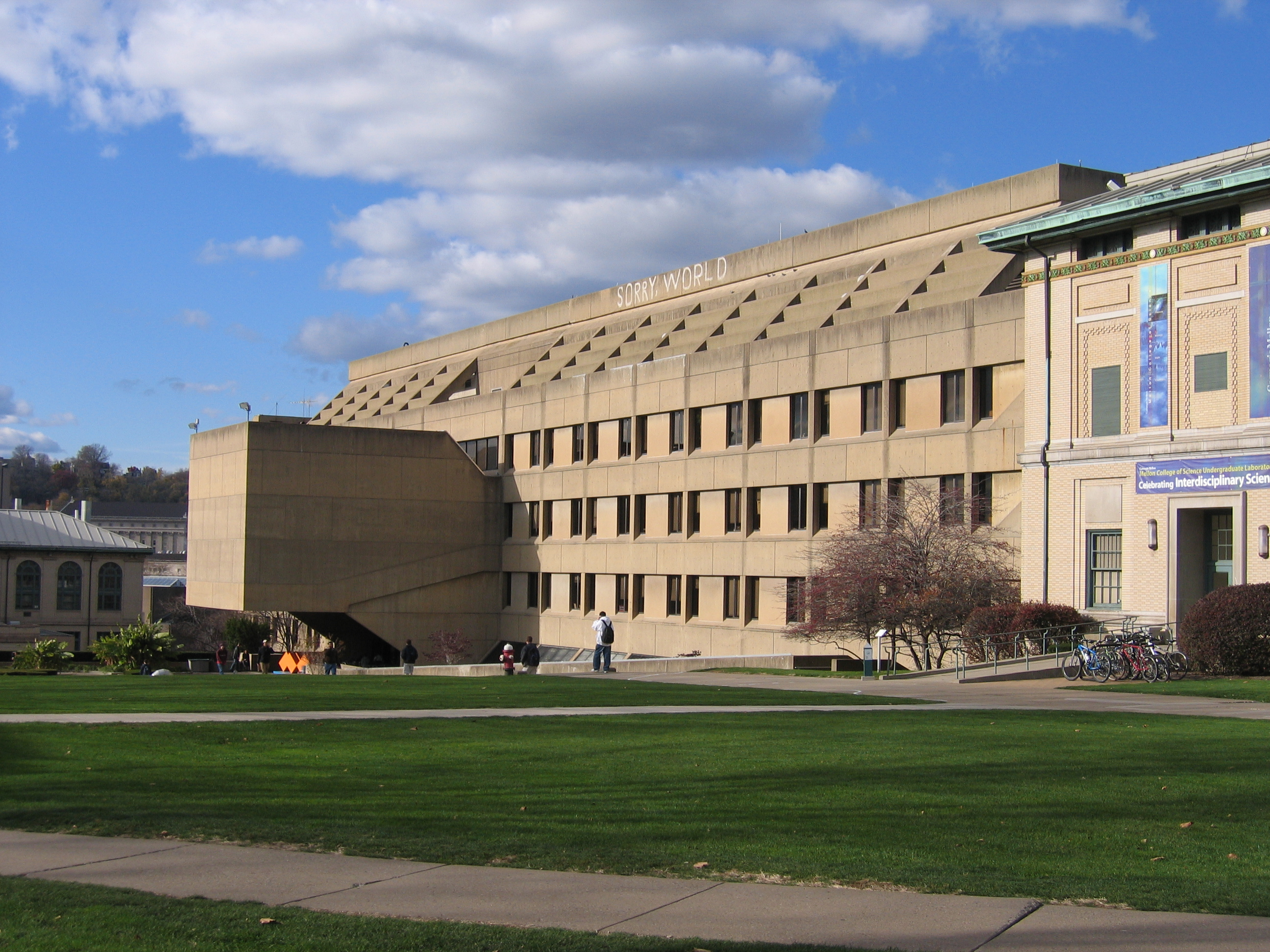 Picture of Wean Hall at Carnegie Mellon University taken just after President Bush was re-elected for a second term. The words "Sorry, World" were written on the building, presumably by students, in response to his re-election. When taking an introduction to computer science, many first programs display an output of "Hello World"; "Sorry World" as written on the building is a play off of this computer science phrase.